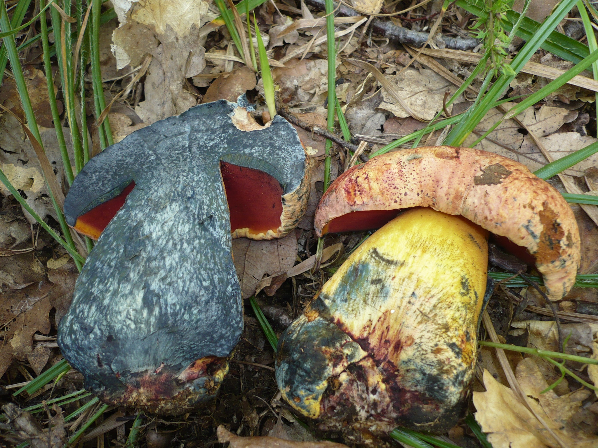 Boletus rhodopurpureus Smotl. Location: Gelber Berg, Purkersdorf, Bezirk Wien-Umgebung, Lower Austria, Austria For more information about this, see the observation page at Mushroom Observer.